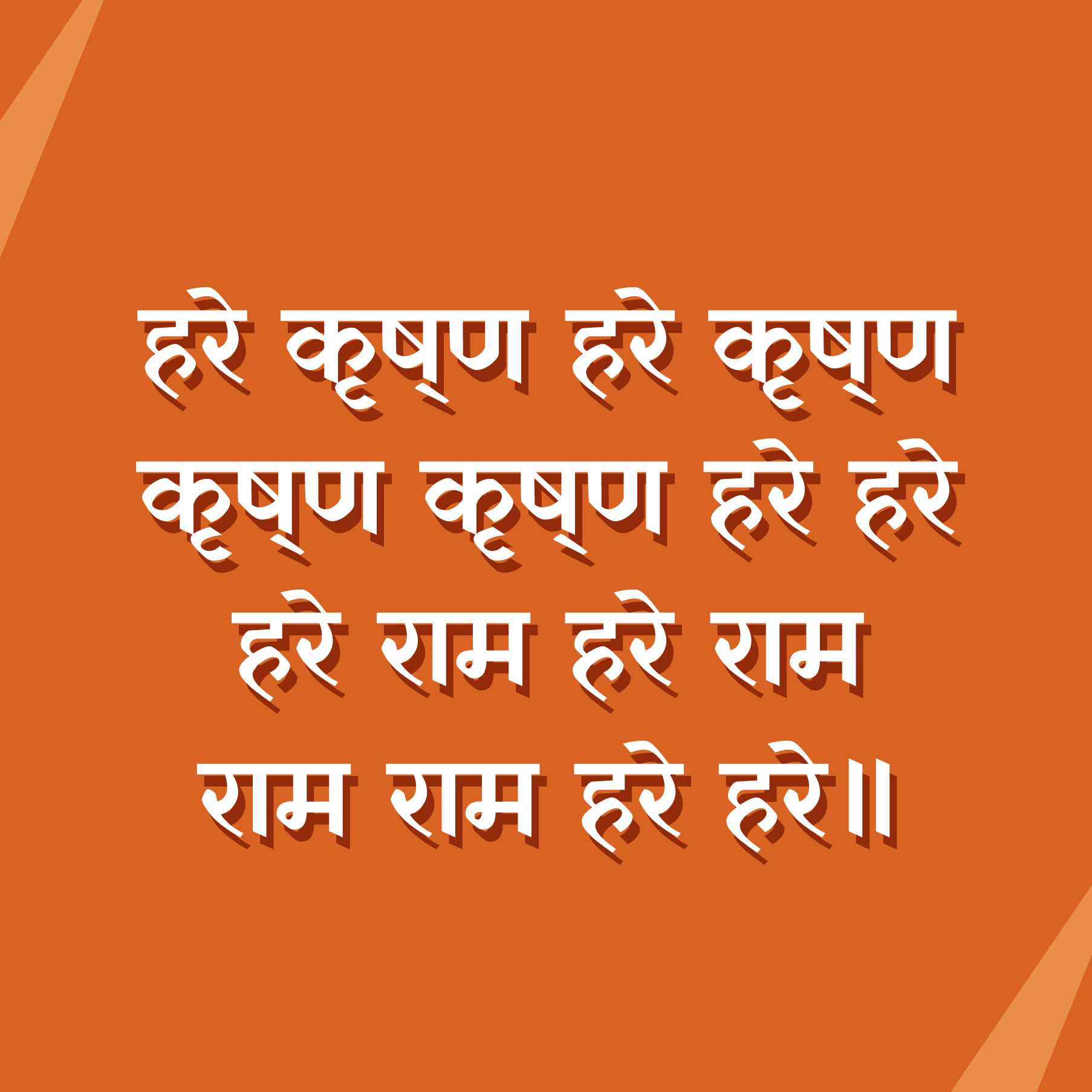 Hare Krishna being written in Devanagari